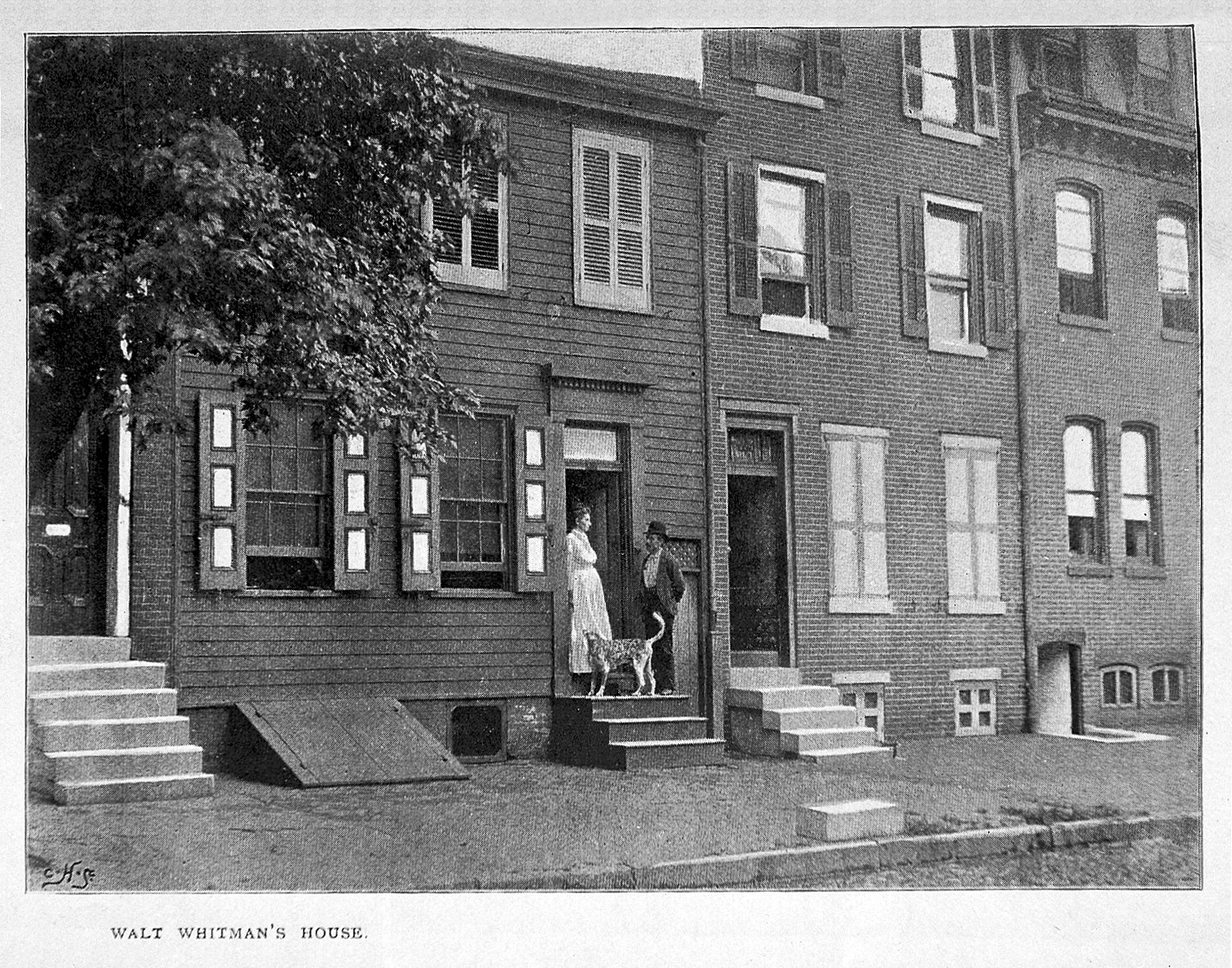 Walt Whitman's house. Wellcome Images Keywords: Walt Whitman